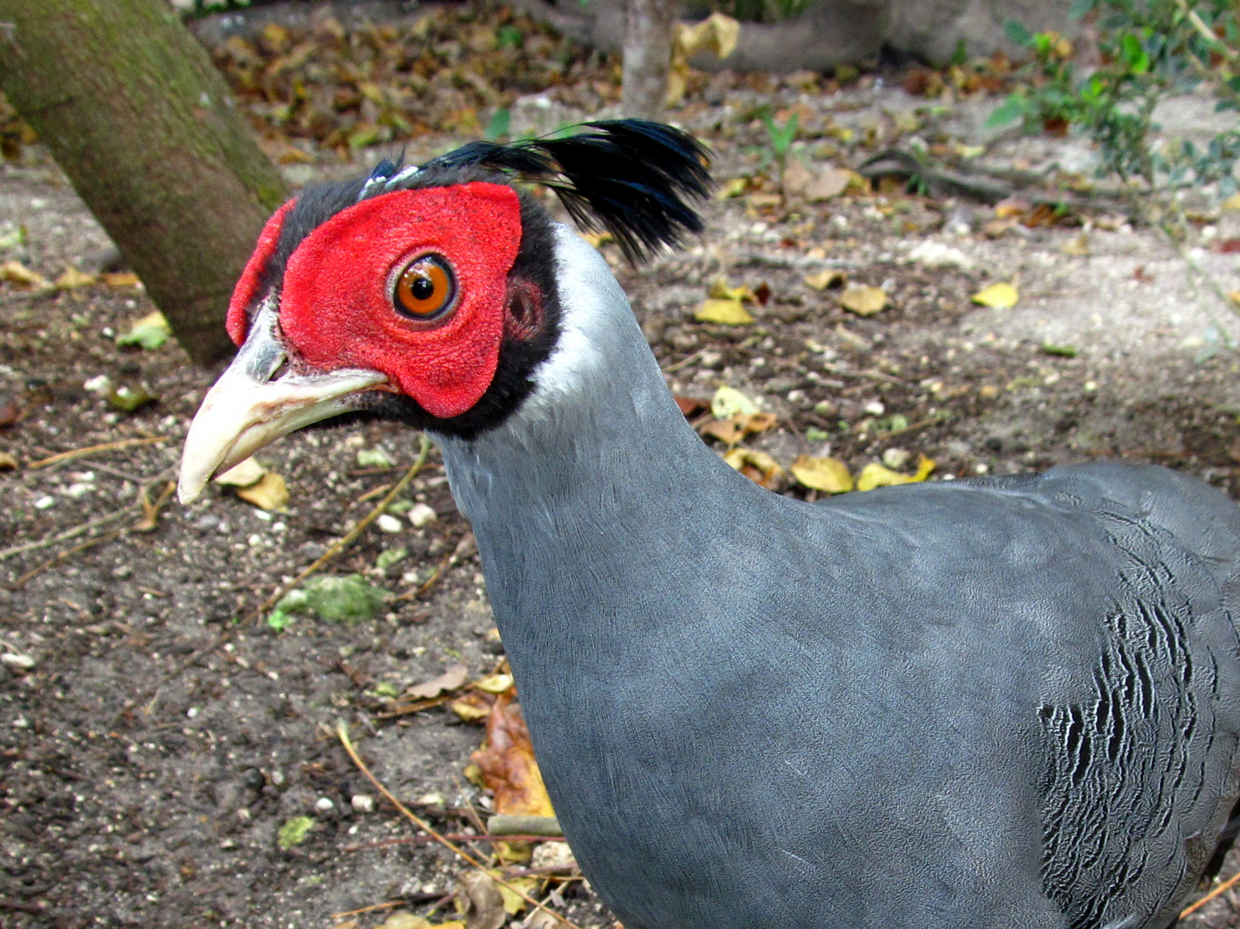 An adult male Siamese Fireback in captivity in Florida, USA.